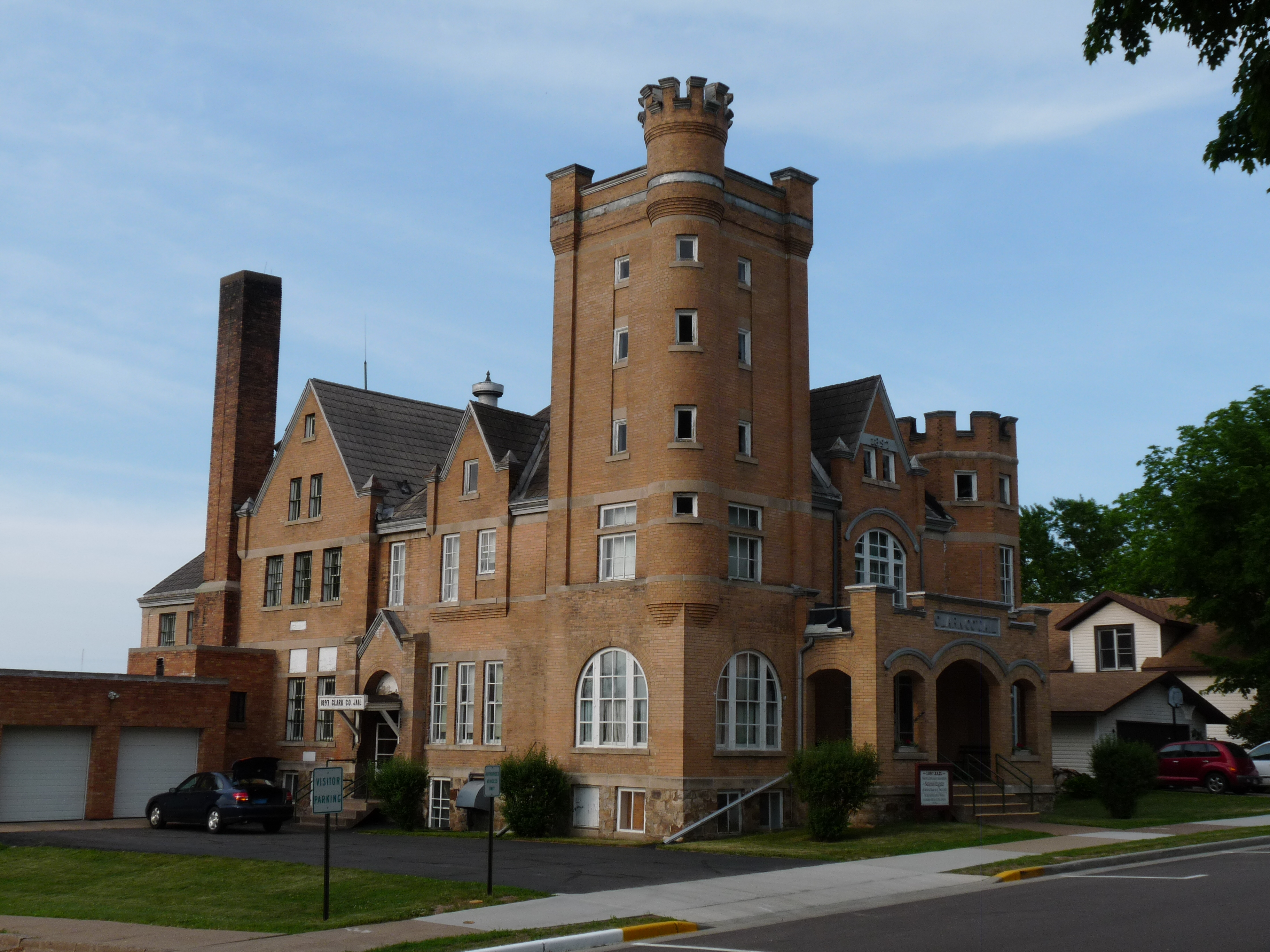 The 1897 jail building in Nellsville, Wisconsin included both detention cells, but a residence for the sheriff and his family. Today it is a museum and the building is on the National Register of Historic Places.